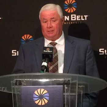 Dennis Franchione, head coach of the Texas State Bobcats football team, at the 2015 Sun Belt Conference Media Day in the Mercedes-Benz Superdome in New Orleans.